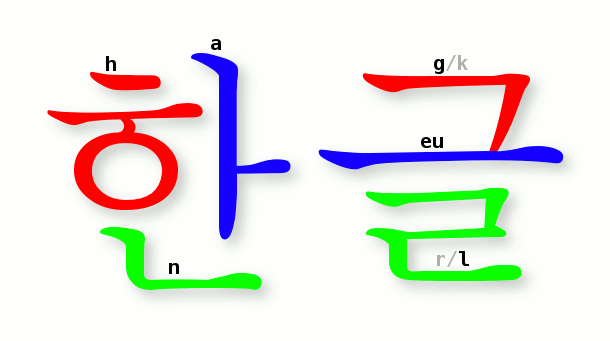 The word Hangeul in Hangeul. Hangeul is read from left to right and from top to bottom. The initial jamo of a syllable is here red, the vovel jamo is blue and the final jamo is green.